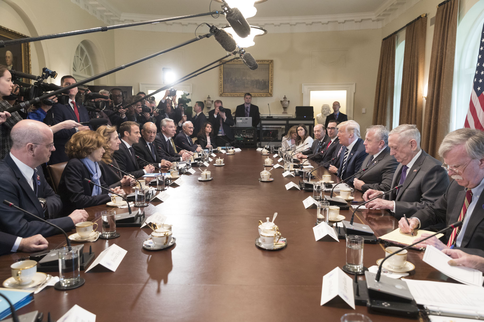 President Trump and President Macron of France (Official White House Photo by Shealah Craighead)